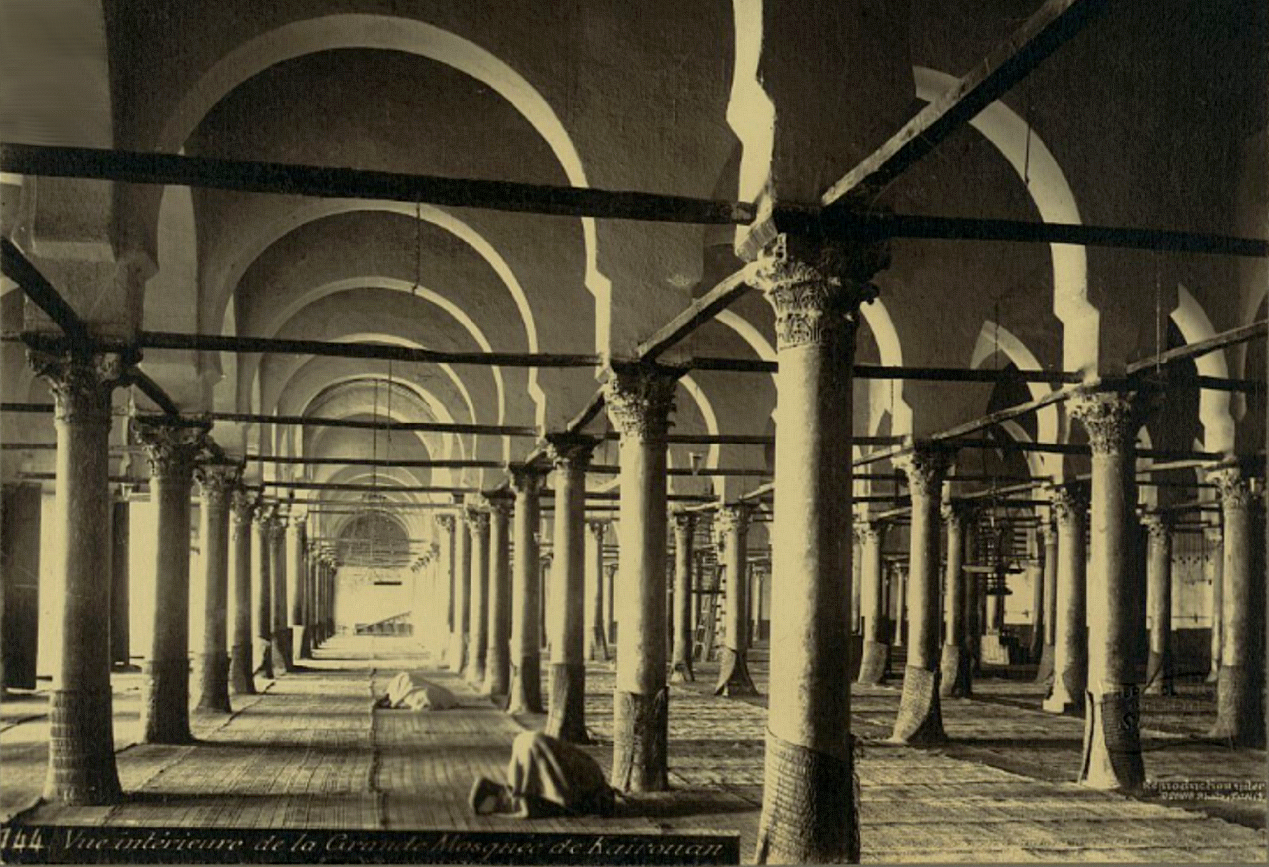 Interior view of the prayer hall in the Great Mosque of Kairouan (Tunisia), dating from 1880.